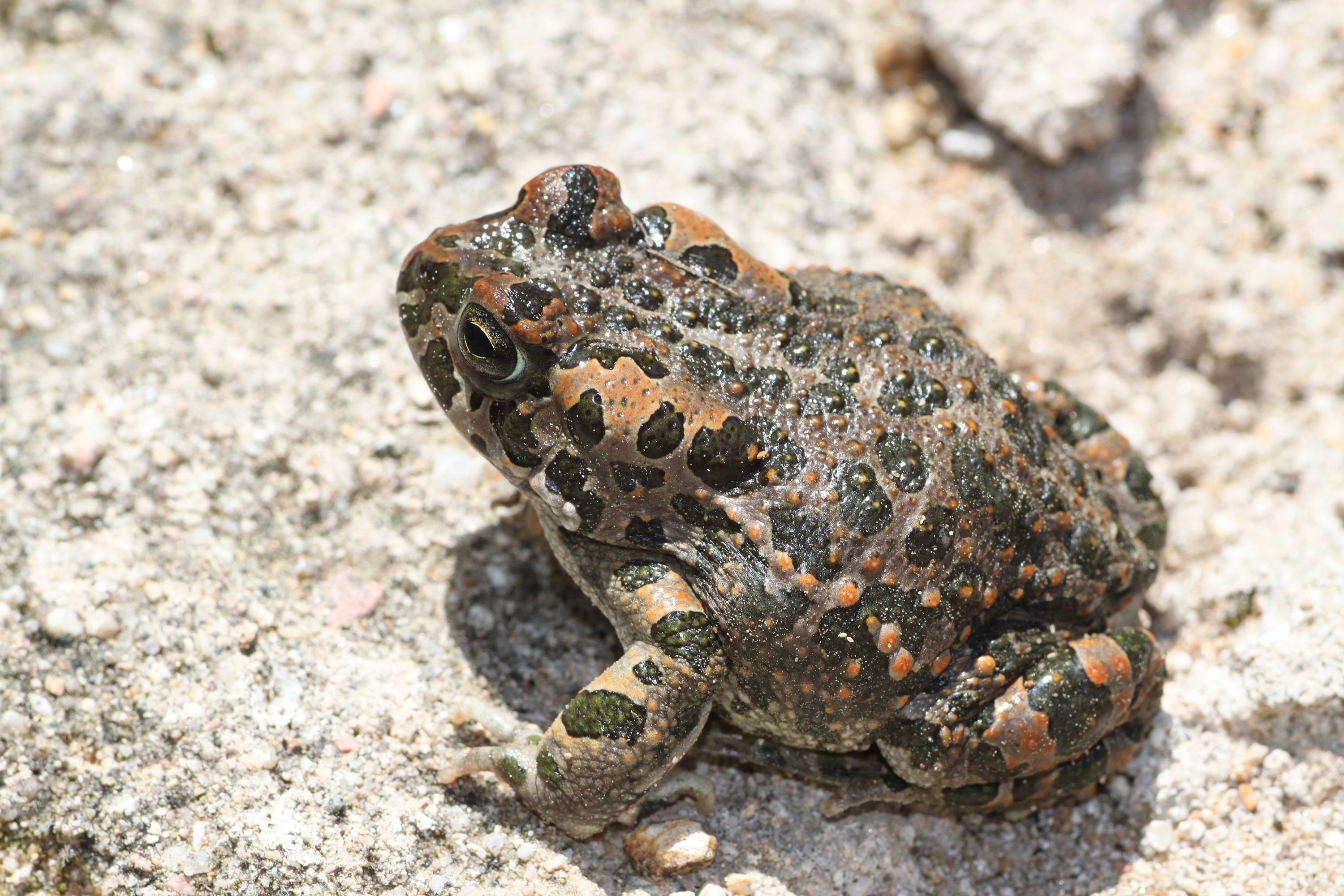 Balearic Green Toad, Bufotes balearicus (formerly a part of B. viridis), Family: Bufonidae. Location: Italy, Sardinia, Arbatax